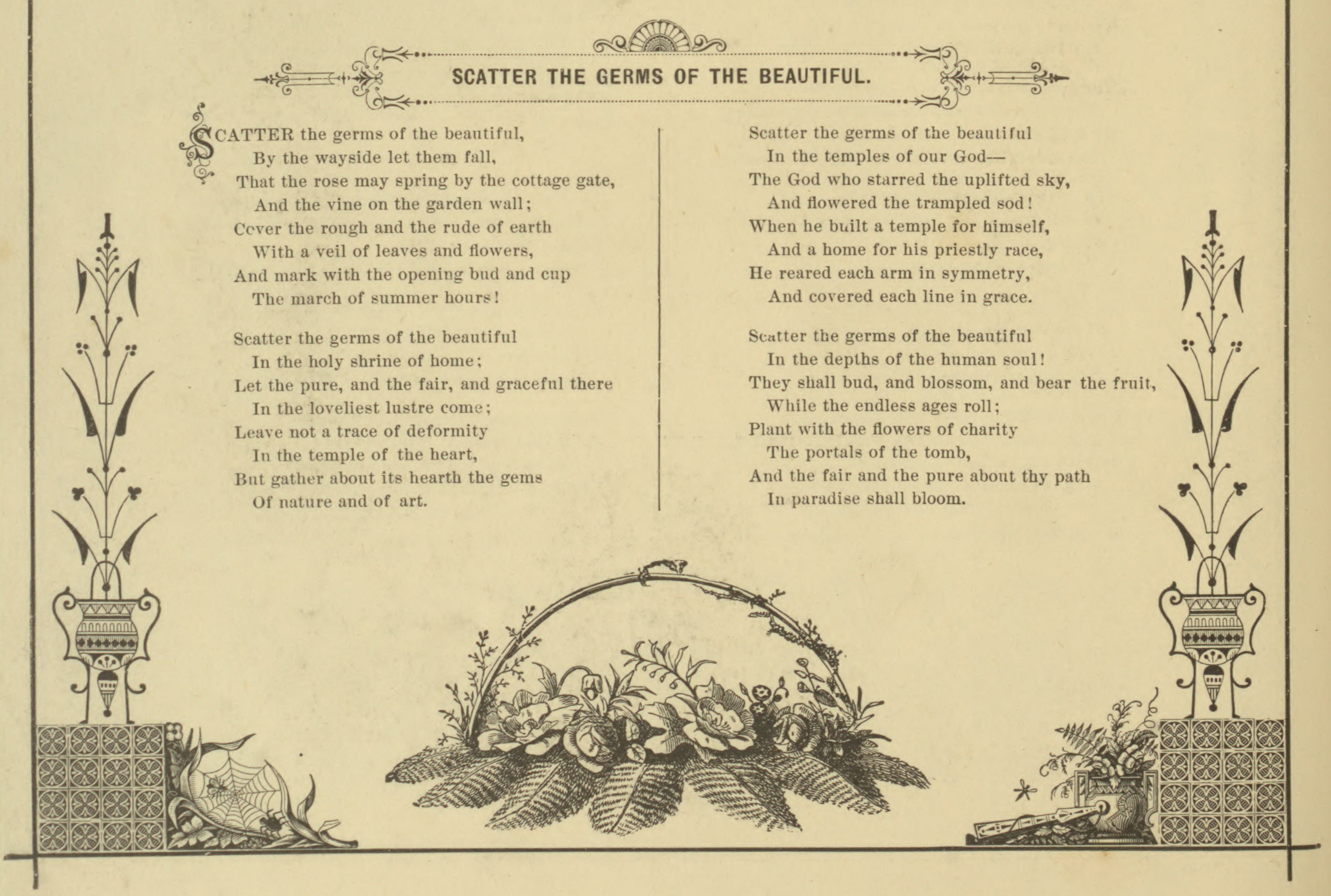 Example of a poem typeset with dingbats, 1880s Poem typeset with printer's dingbats as ornaments, from "Hill's Manual", Chicago, 1882.